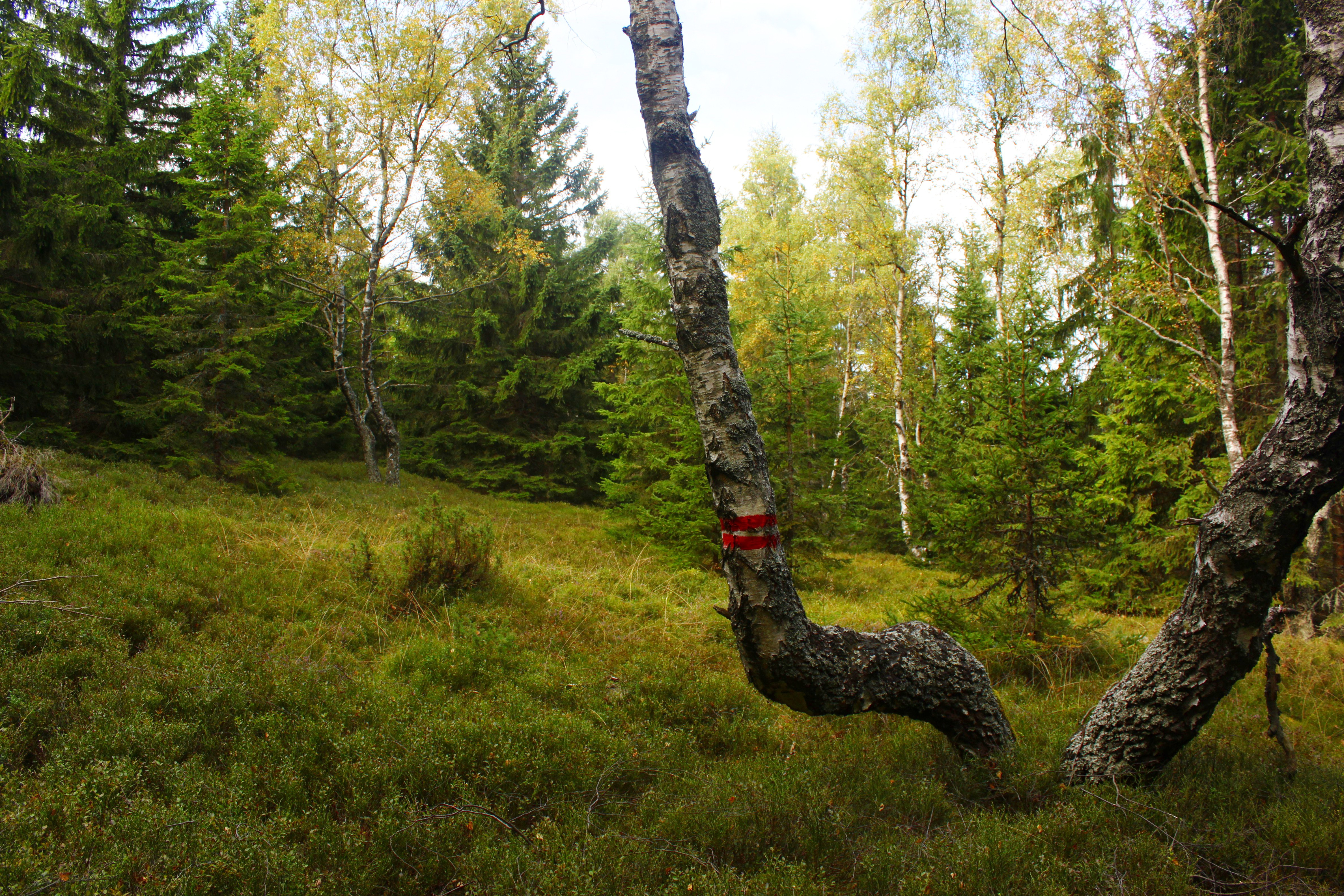 Nature reserve "Pod Popelní horou" in Prachatice District, Czech Republic. Remnants of a former pasture with a population of Juniperus communis.